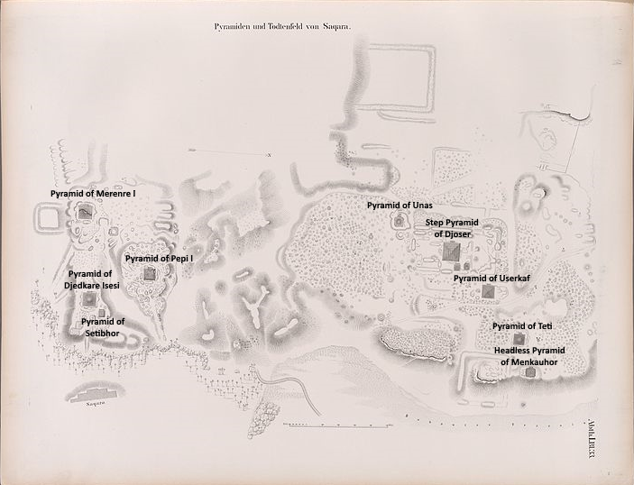 Image originally created by Richard Lepsius around 1849. Digitized by the New York Public Library in 2015. Modified by Mr rnddude to include annotations on 25/07/2019.